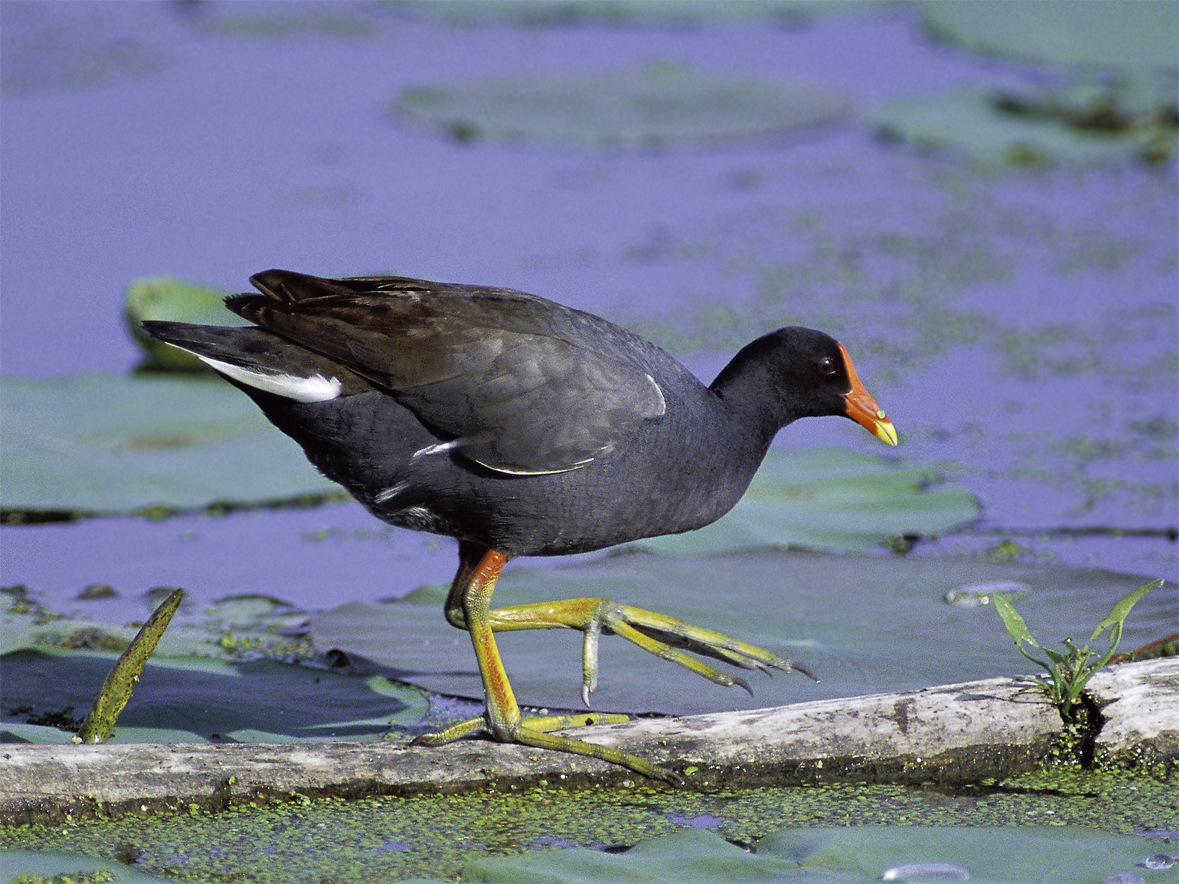 Common Gallinule Gallinula galeata at Squaw Creek National Wildlife Refuge, Missouri. First uploaded July 18, 2003 - Wikipedia